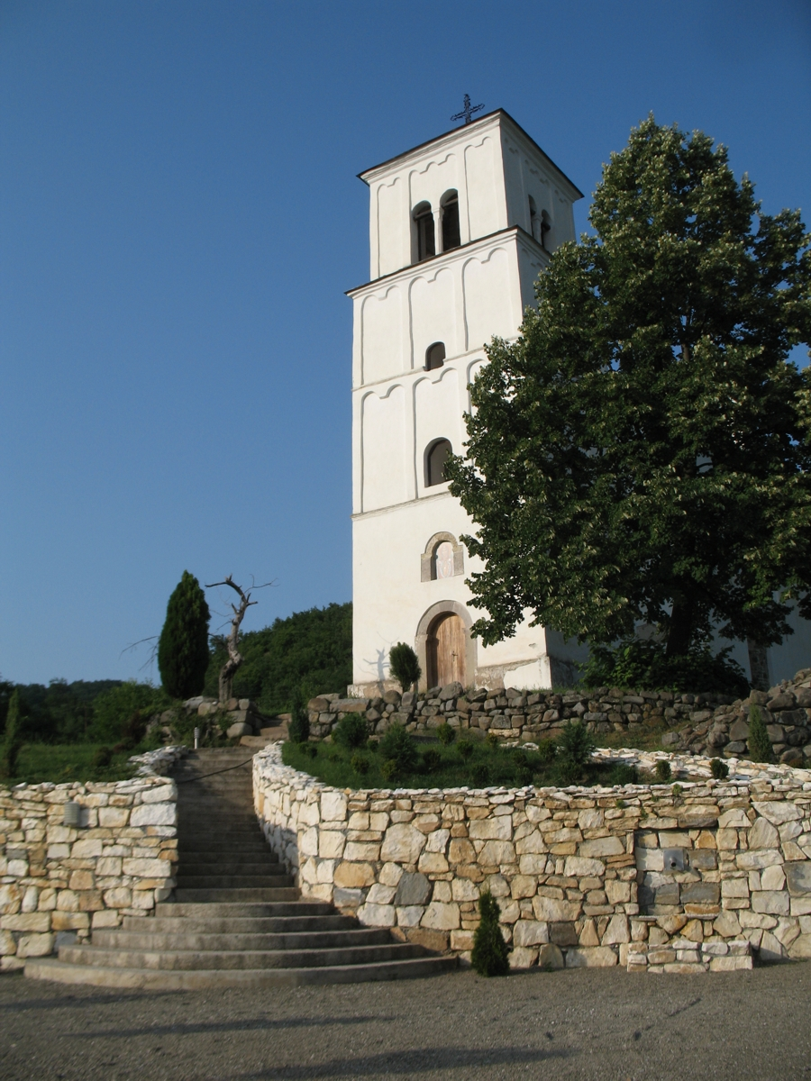 Nova (New) Pavlica church (former medieval monastery) in Pavlica,Raška municipality,Serbia.